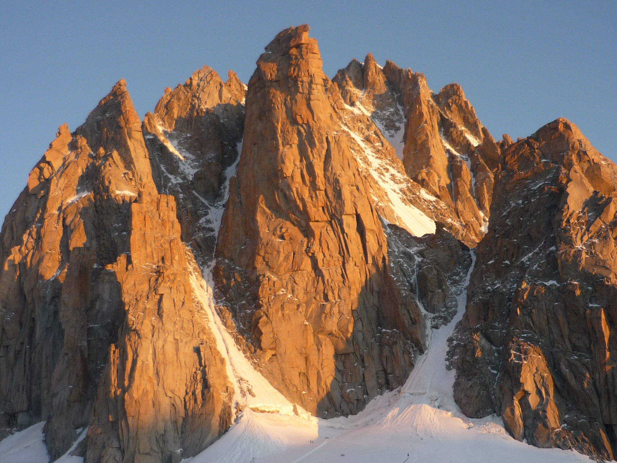 Grand Capucin, Mont Blanc, during sunrise Lumbaart: Grand Capucin, Munt Bianch, in del mument che'l sul l'è drèe a vegni sö